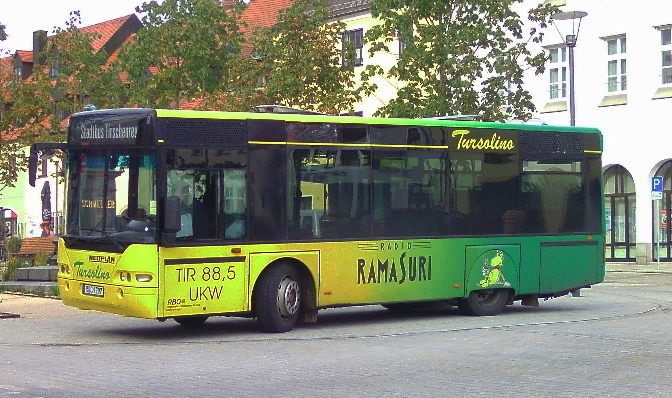 Neoplan N4007 Metroliner in Tirschenreuth, Germany. Built 1999.